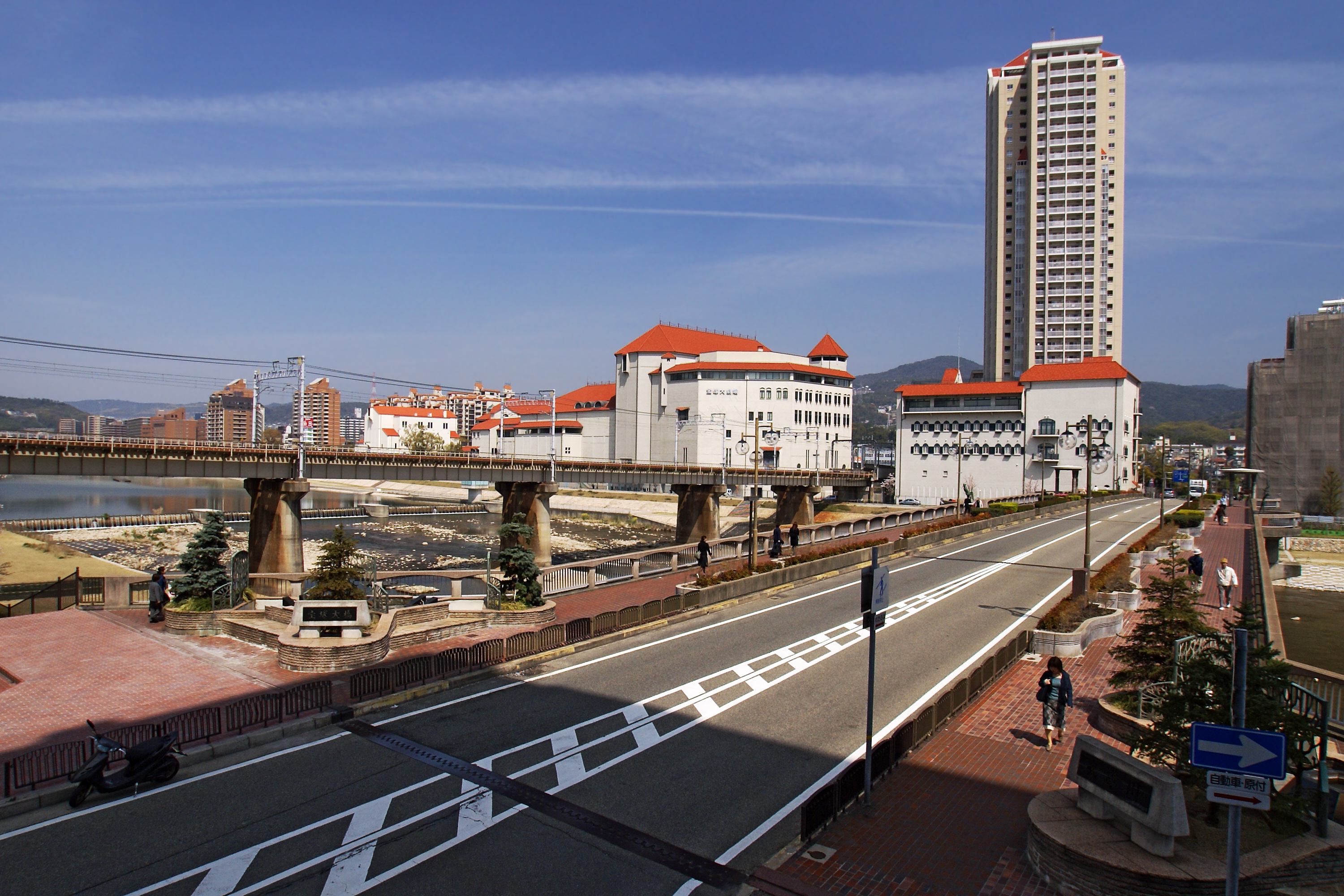 Takarazuka Grand Theater, Bow Hall and Takarazuka Music School in Takarazuka, Hyogo prefecture, Japan